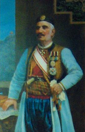 Photo of Nicholas I of Montenegro (1841-1921); crypt of the Russian Orthodox Church (Church of Christ the Saviour, St. Catherine and St. Seraph). Sanremo, Italy